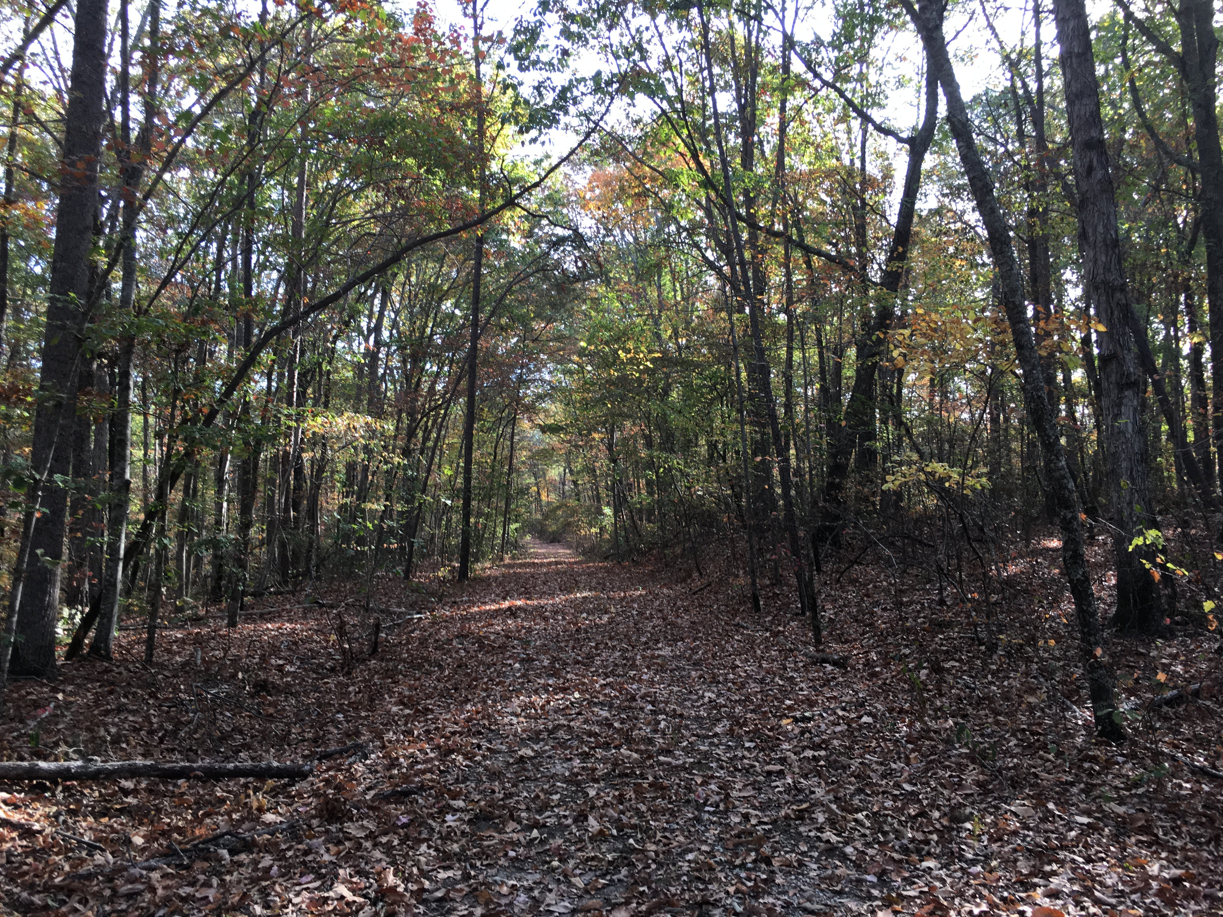 Trail 202 on an old road in the Sipsey Wilderness in William B. Bankhead National Forest, Alabama.